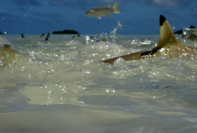 Blacktip reef sharks (Carcharhinus melanopterus) feeding on mullet in French Polynesia